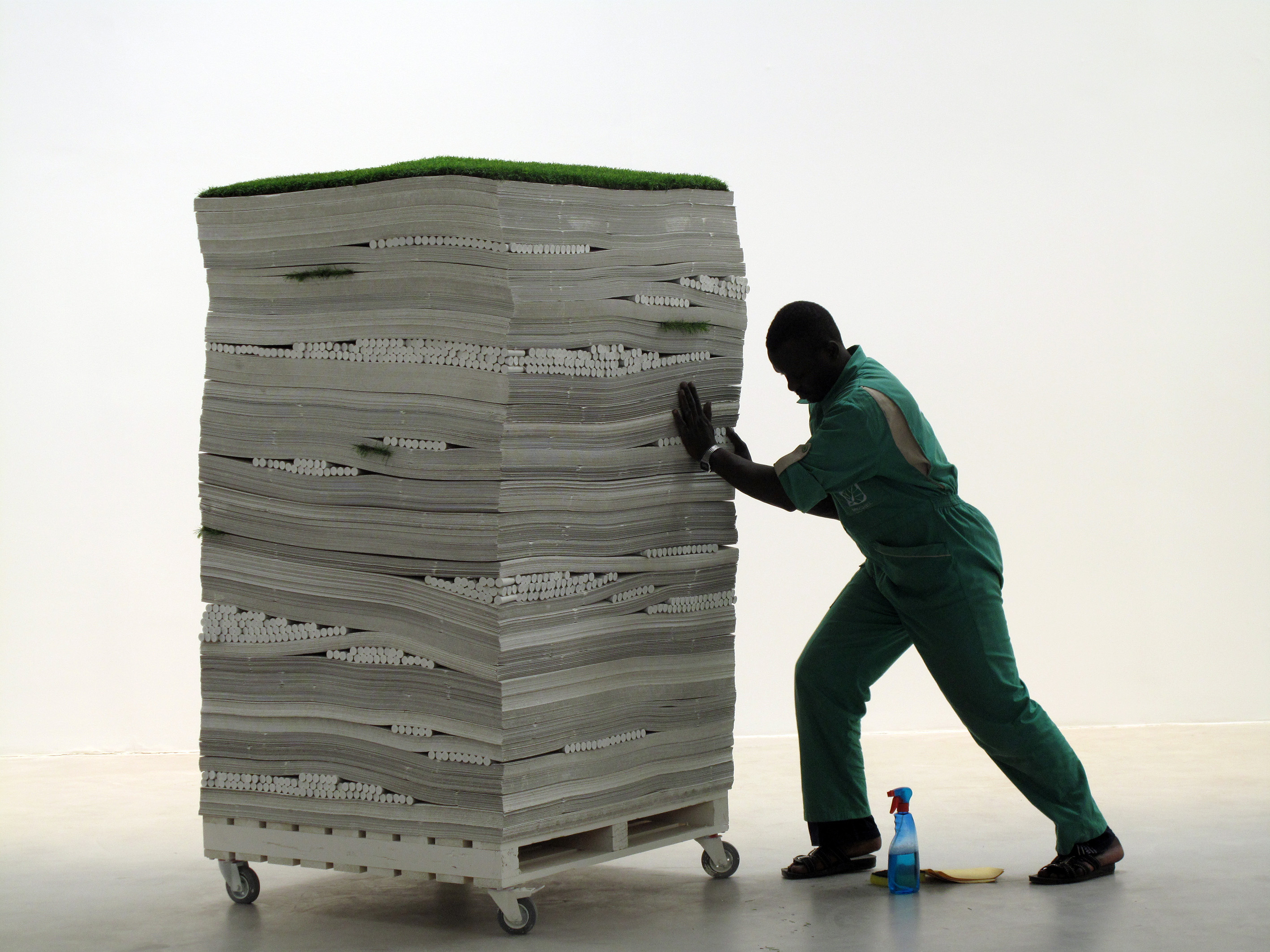 Beirut 1x1 installation